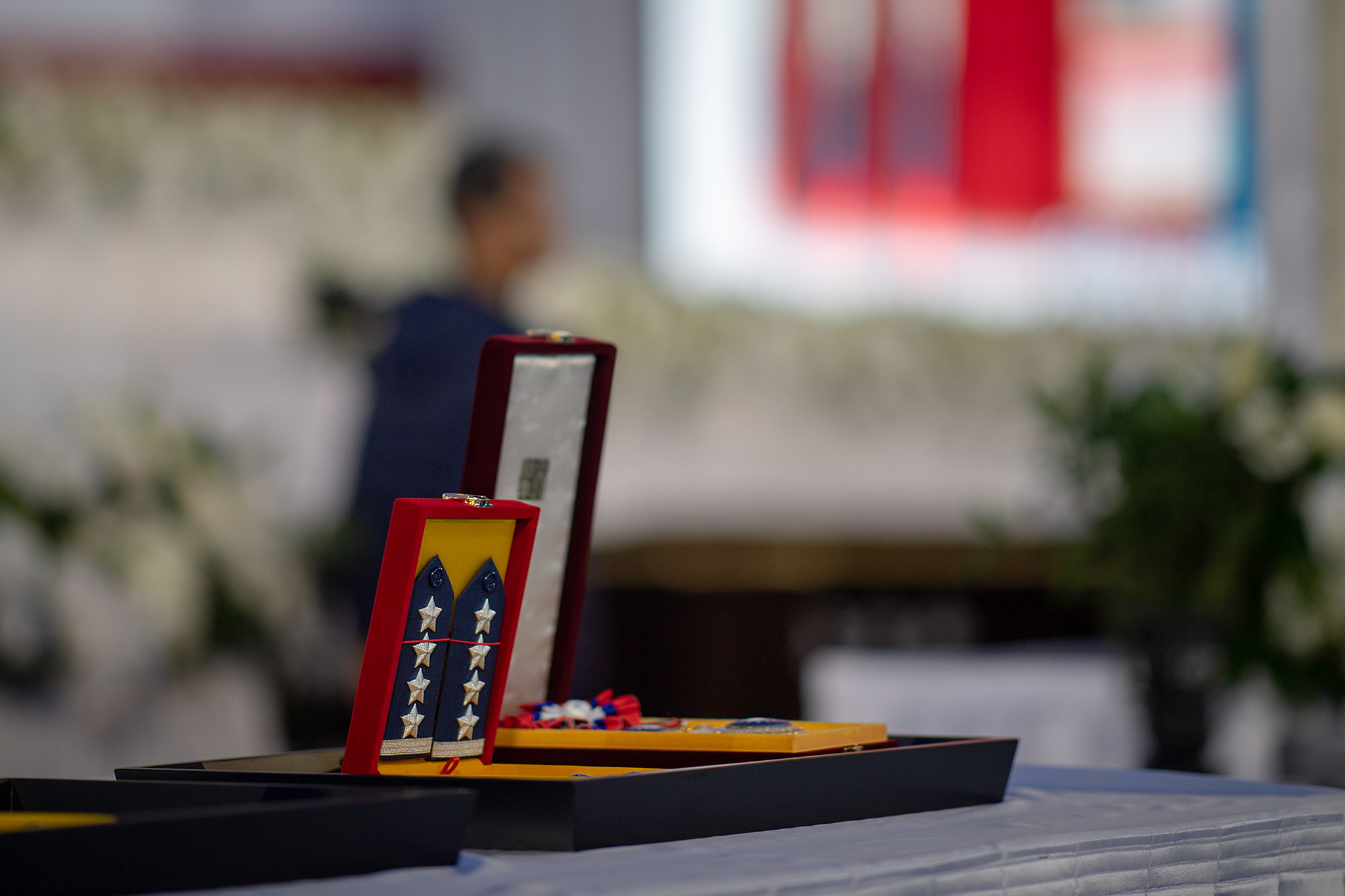 Official Photo by Makoto Lin / Office of the President